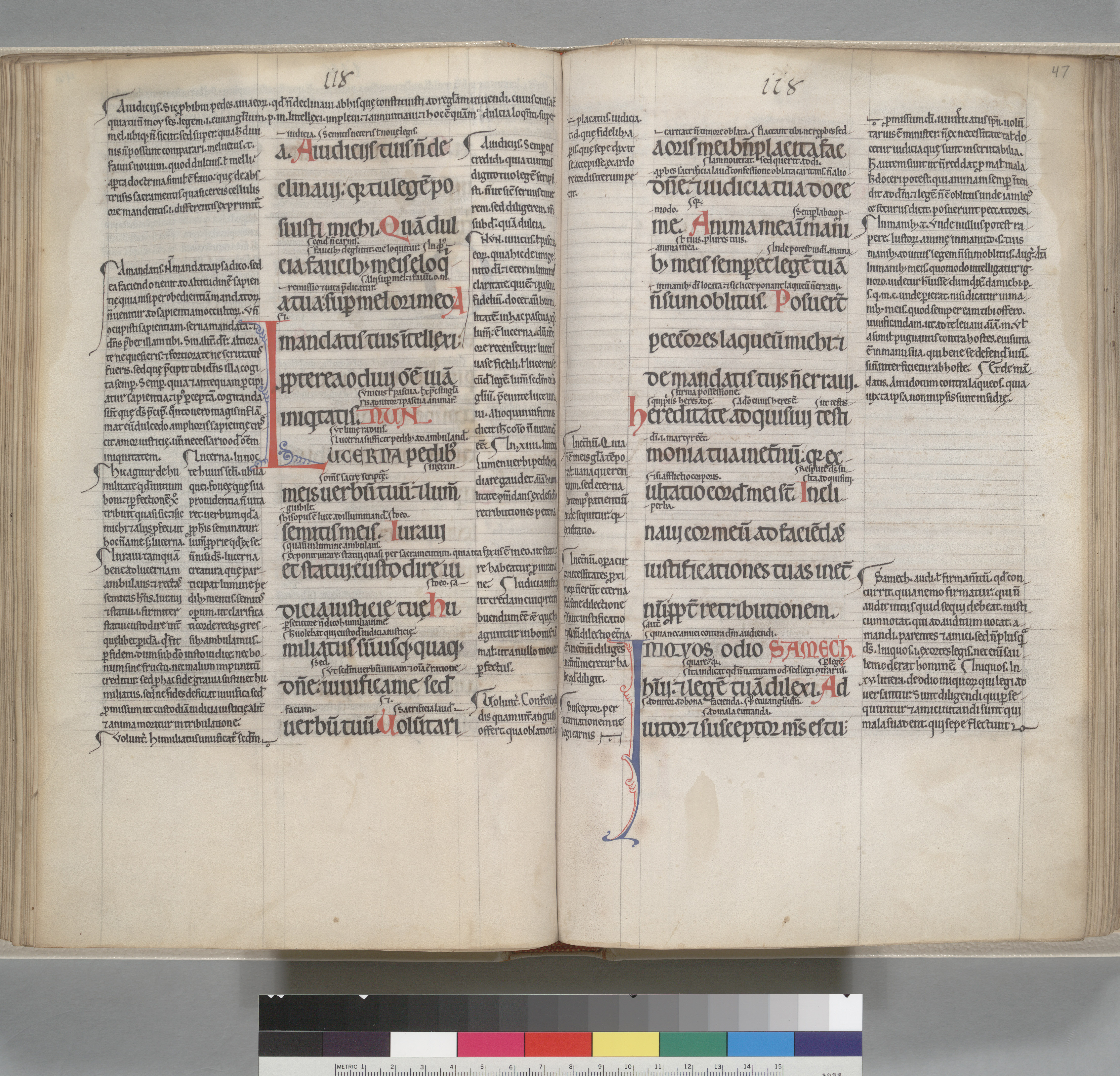 Psalter, Glossed, ink on parchment, 302 x 190 mm